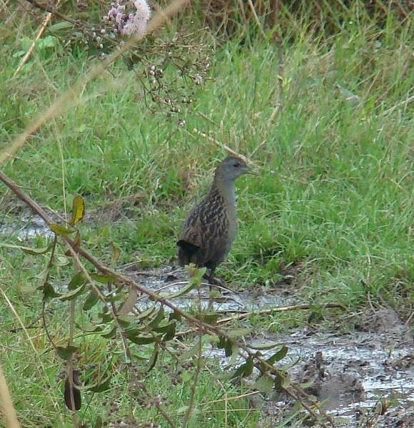 Ash-throated Crake (Porzana albicollis), Birigüi, São Paulo, Brazil.